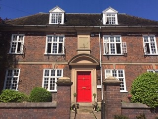 The school is now called the Teachers House